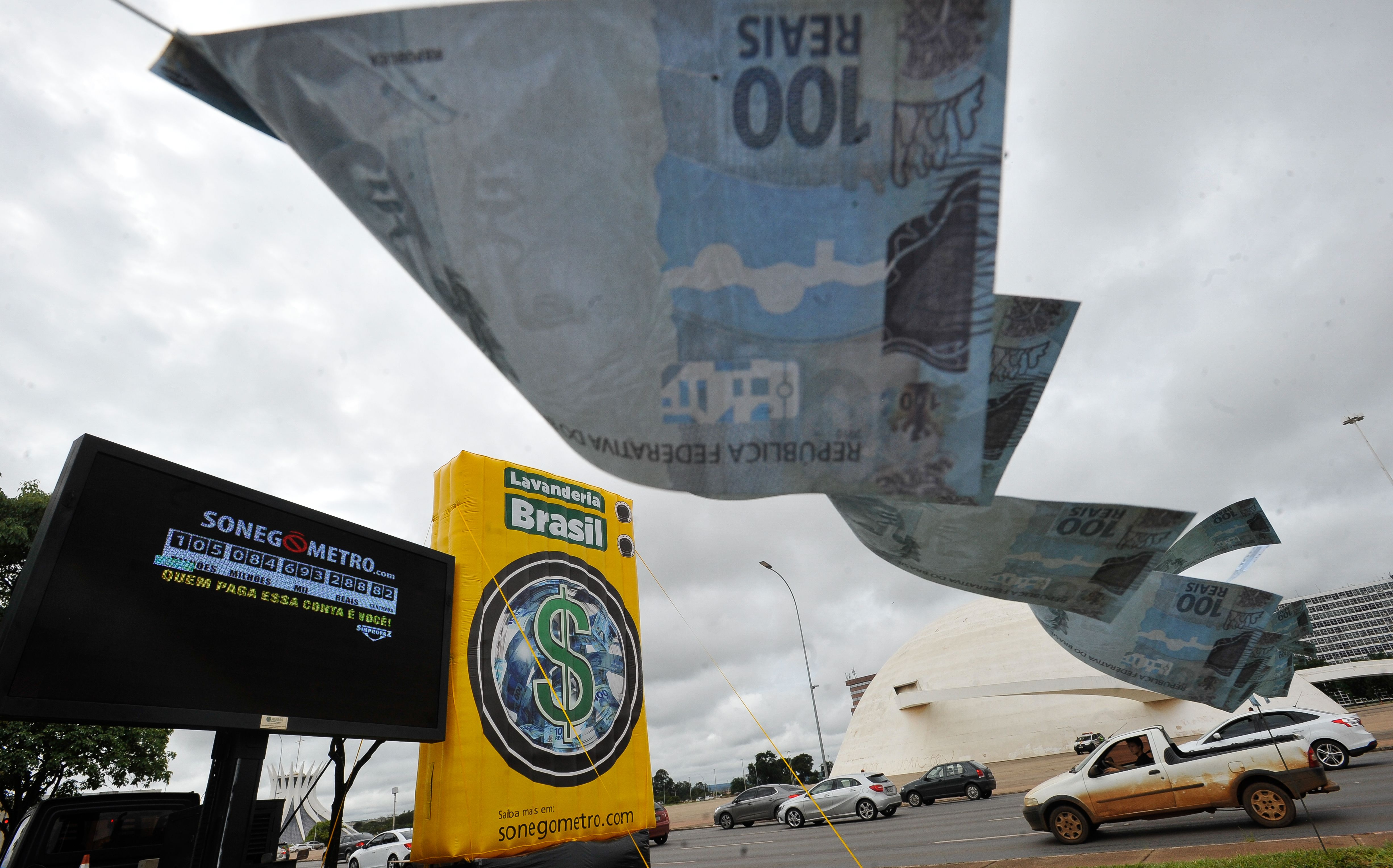 Photo by Marcello Casal Jr/Agência Brasil CCBY3.0